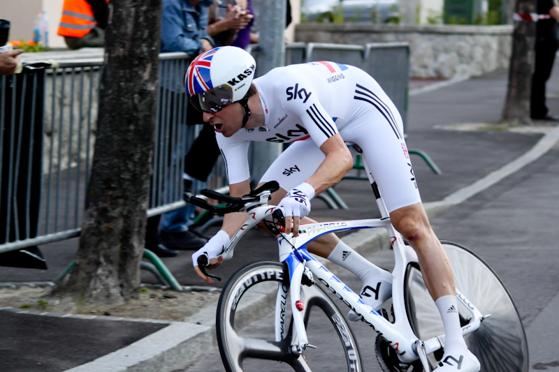 Bradley Wiggins